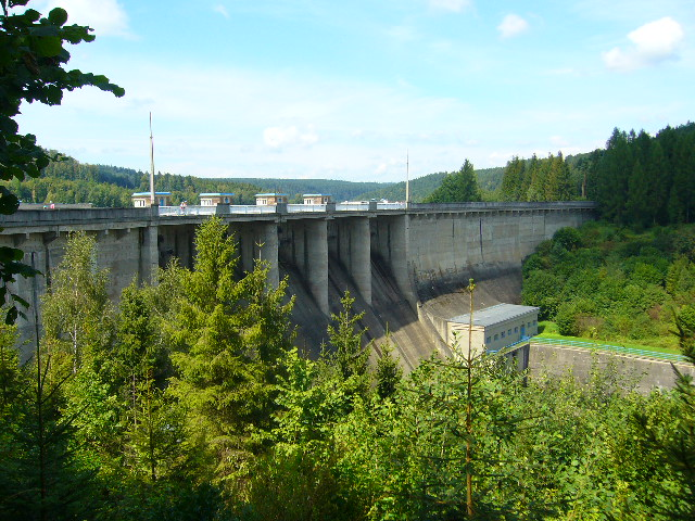 Dam of Kružberk reservoir in the Moravian–Silesian Region in the Czech Republic.